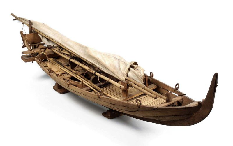 Model of a proa